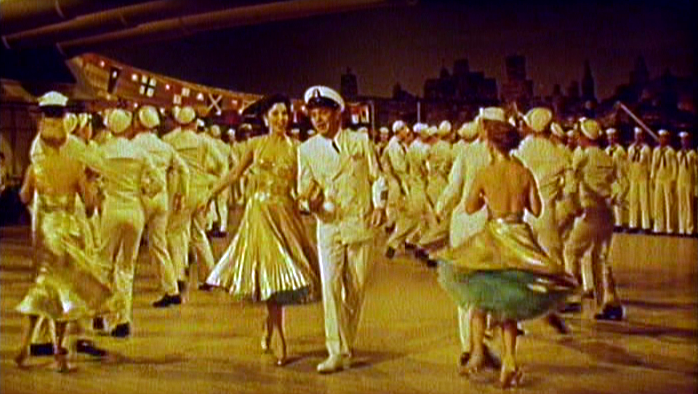 Screenshot from the trailer for the 1955 film, Hit The Deck, showing Ann Miller and Tony Martin.